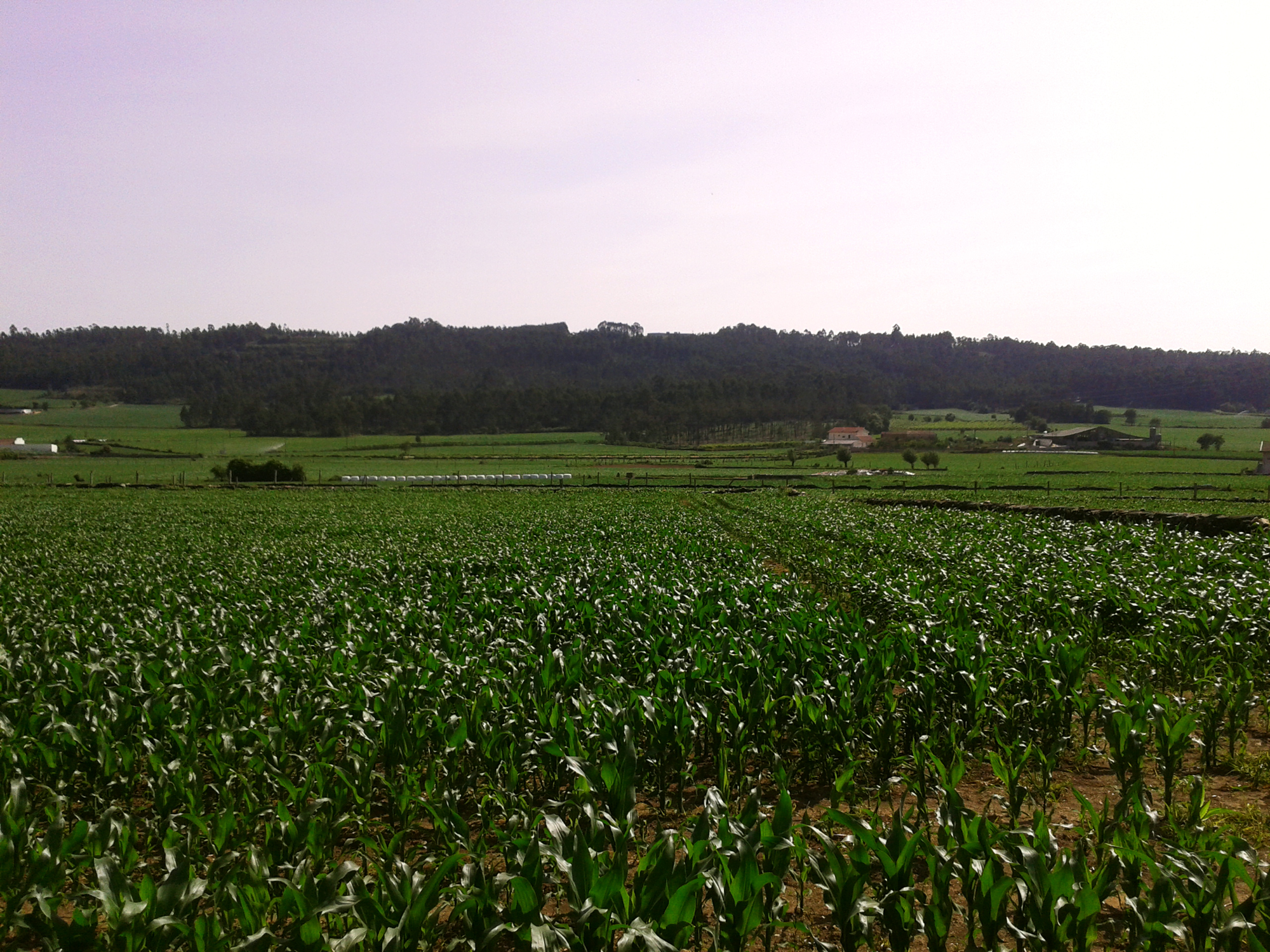 farmland in Rates Hills, Póvoa de Varzim, Portugal